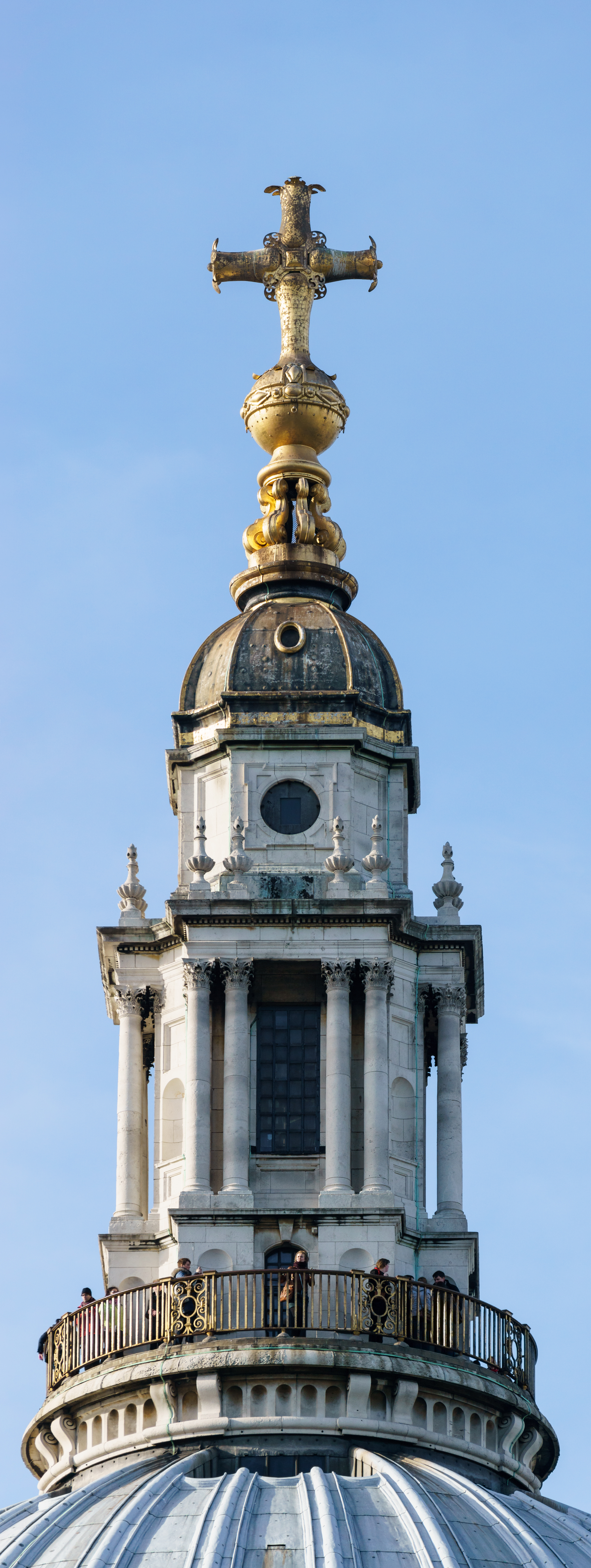 St Paul's Cathedral lantern, ball and cross. The lantern weighs 770 tonnes. The ball and cross is 7 metres tall and weighs 7 tonnes. The photo was taken from the roof terrace of One New Change in the City of London